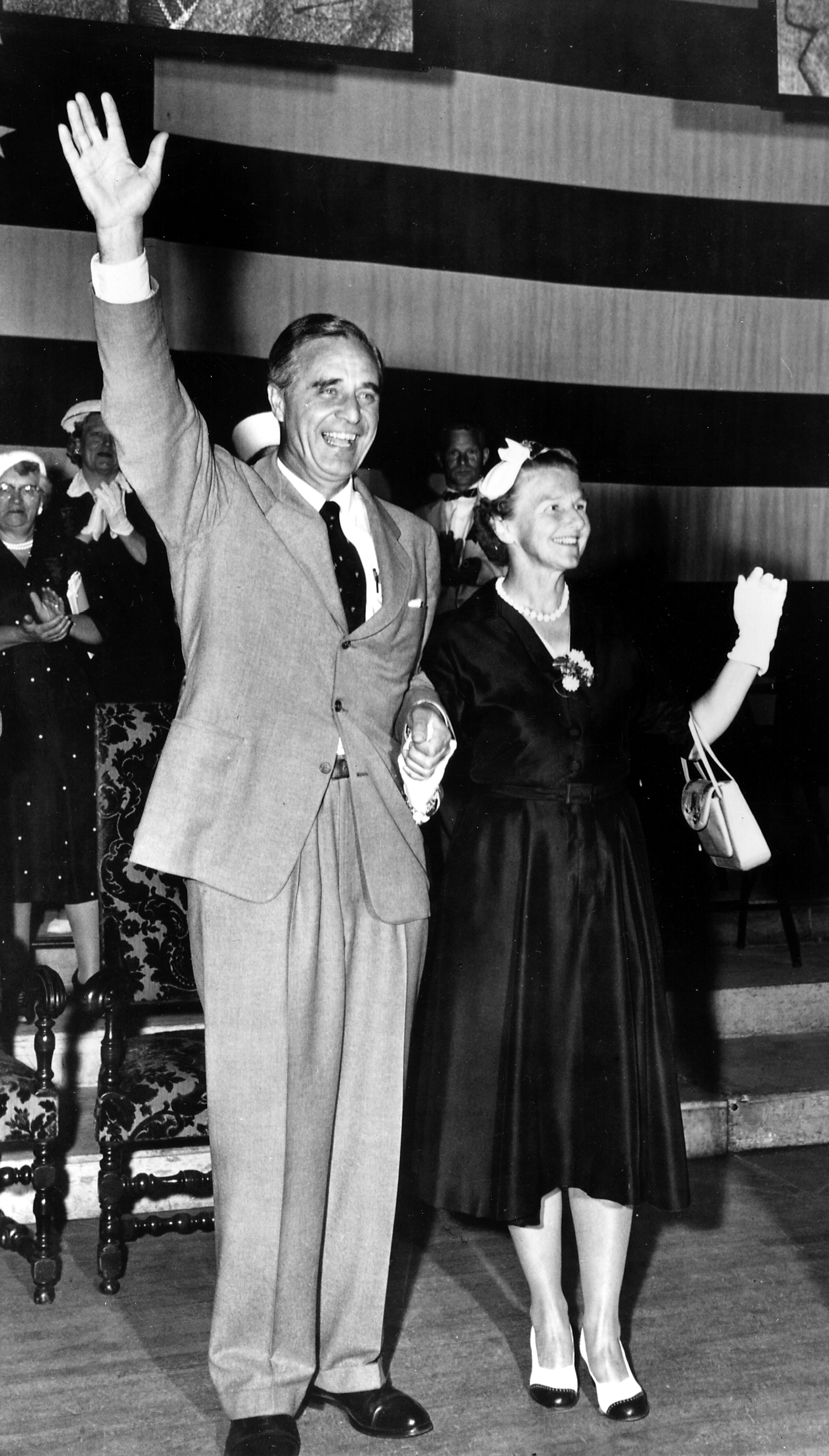 Prescott and Dorothy Bush